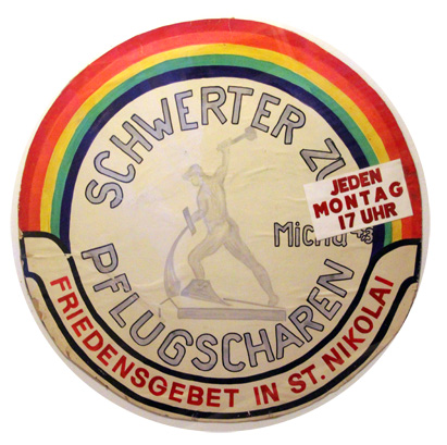 By André Steidtmann 1982 designed poster, every Monday at 5 pm is invited to the "Friedensgebet" (pray for peace) in the Nikolai Church in Leipzig. Photo: Matthias Sengewald, 24/11/2013